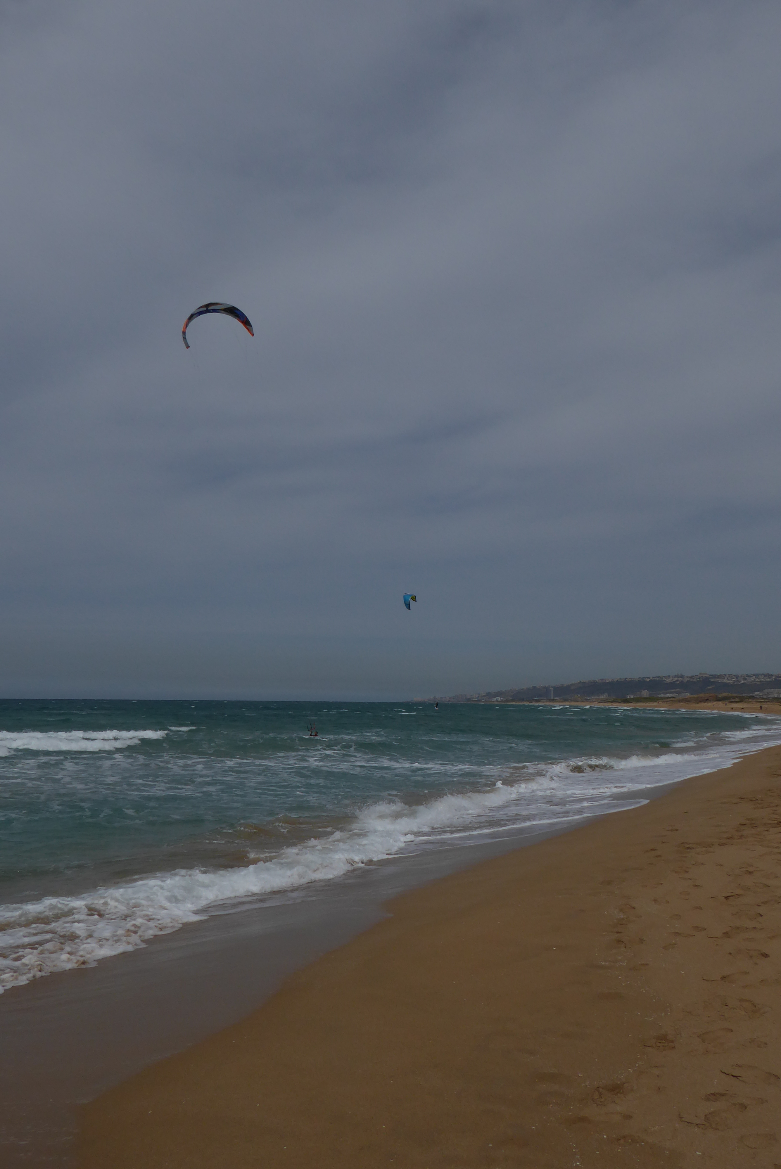 Beaches of Israel